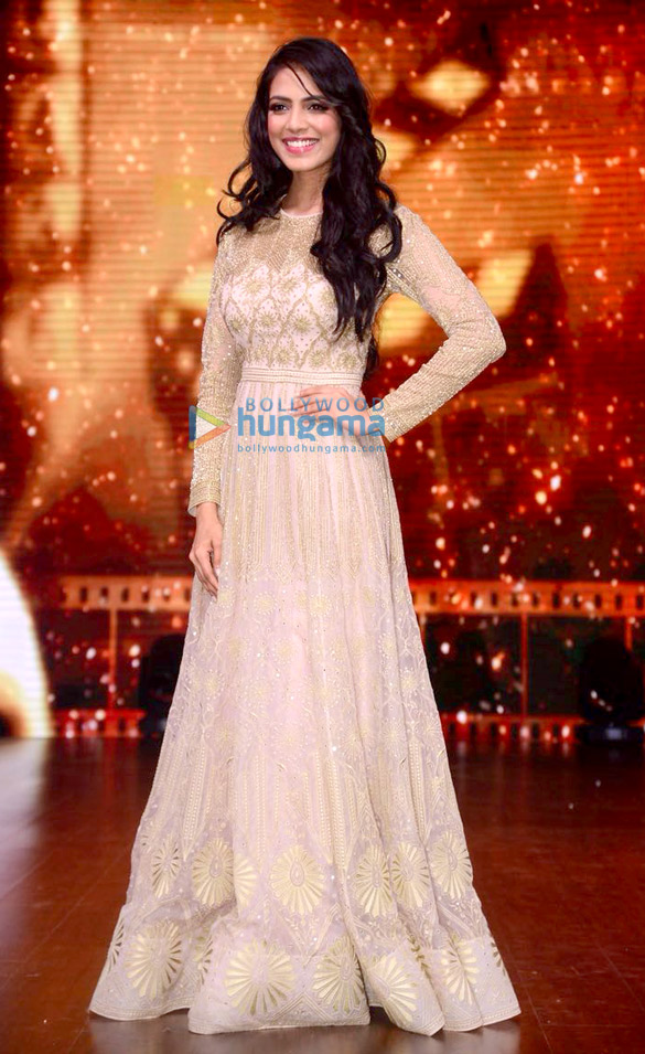 Malavika Mohanan promotes her film on sets of DID Little Masters